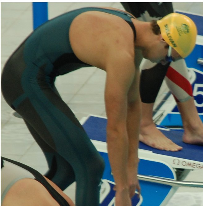 Eamon Sullivan starting the 4x100m freestyle relay at the Beijing olympic games, august 11th 2008 at the Watercube